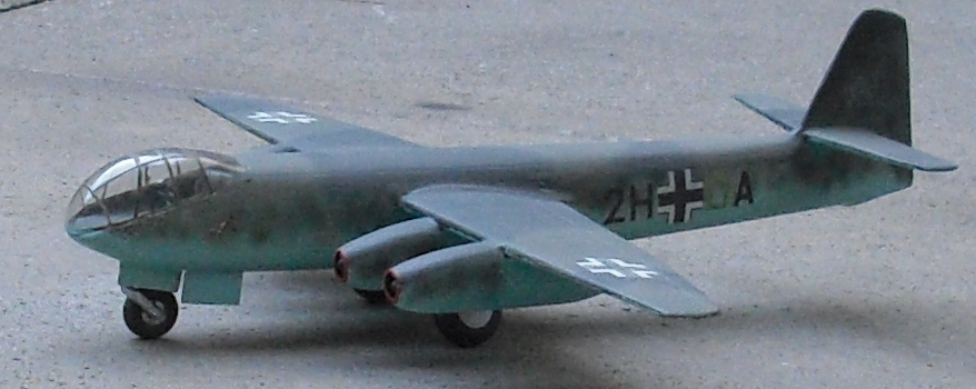 Model photo of a Heinkel He 343